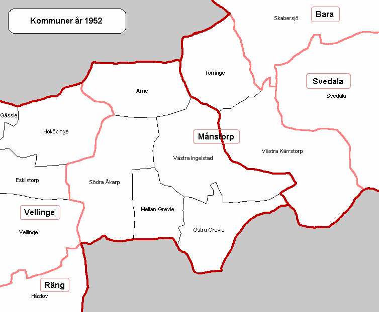 Map of the old municipality of Månstorp